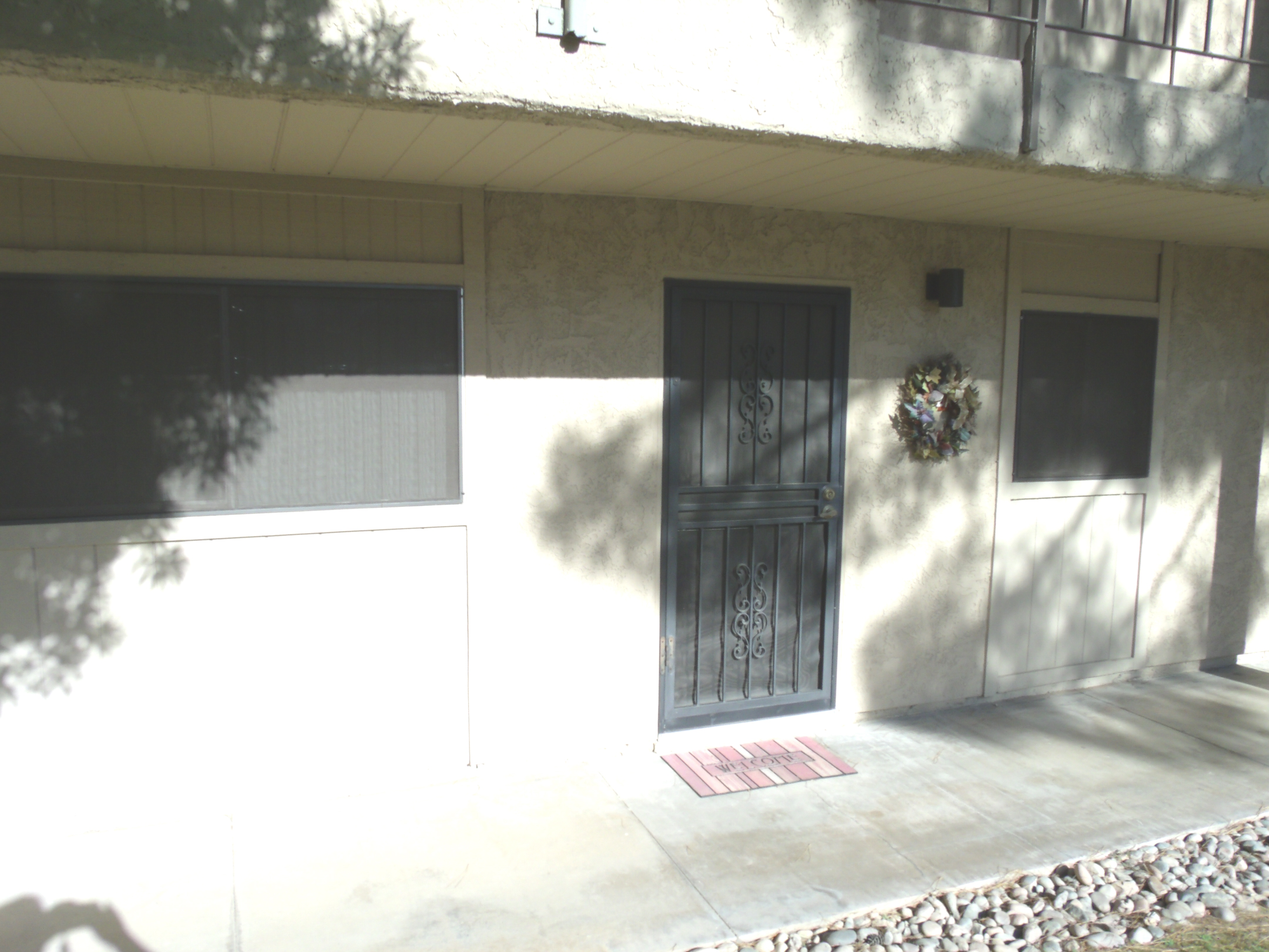 Apartment 132A of the Winfield Apartments (now the Winfield Condominium) where actor Bob Crane of Hogan's Heroes fame was murdered on June 29, 1978. The Condo is located at 7430 E. Chaparral Road in Scottsdale, Arizona. Phoenix New Times